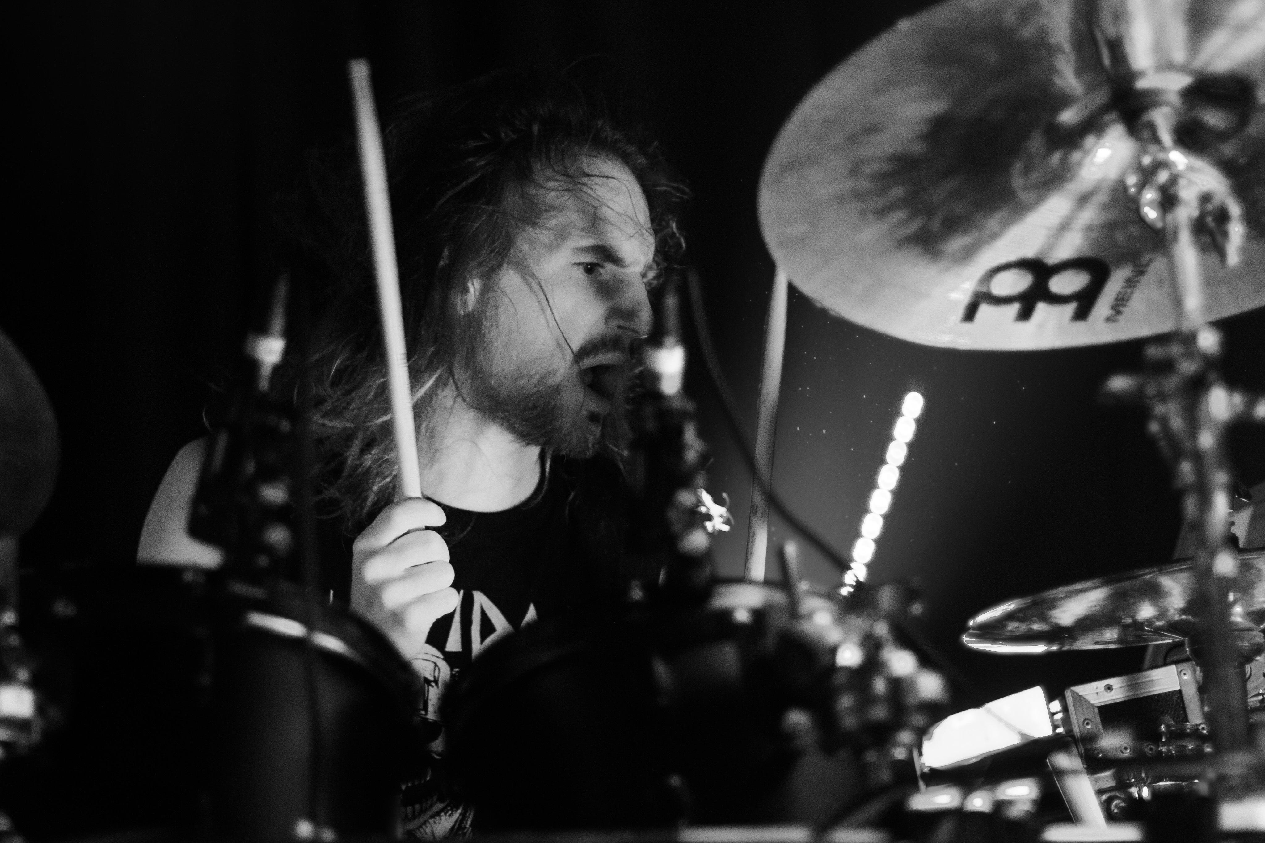 Maximilian Kotze Kotzmann (Drums) of German metalcore group Callejon on Hartgeld im Club Tour (2019), ZAKK, Düsseldorf (DEU) /// leokreissig.de for Wikimedia Commons